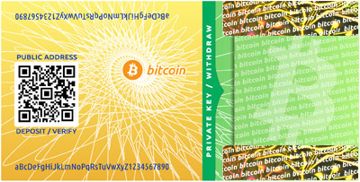 Mockup of a bitcoin paper wallet. Invalid public key intentionally used to prevent accidental deposits to this address.